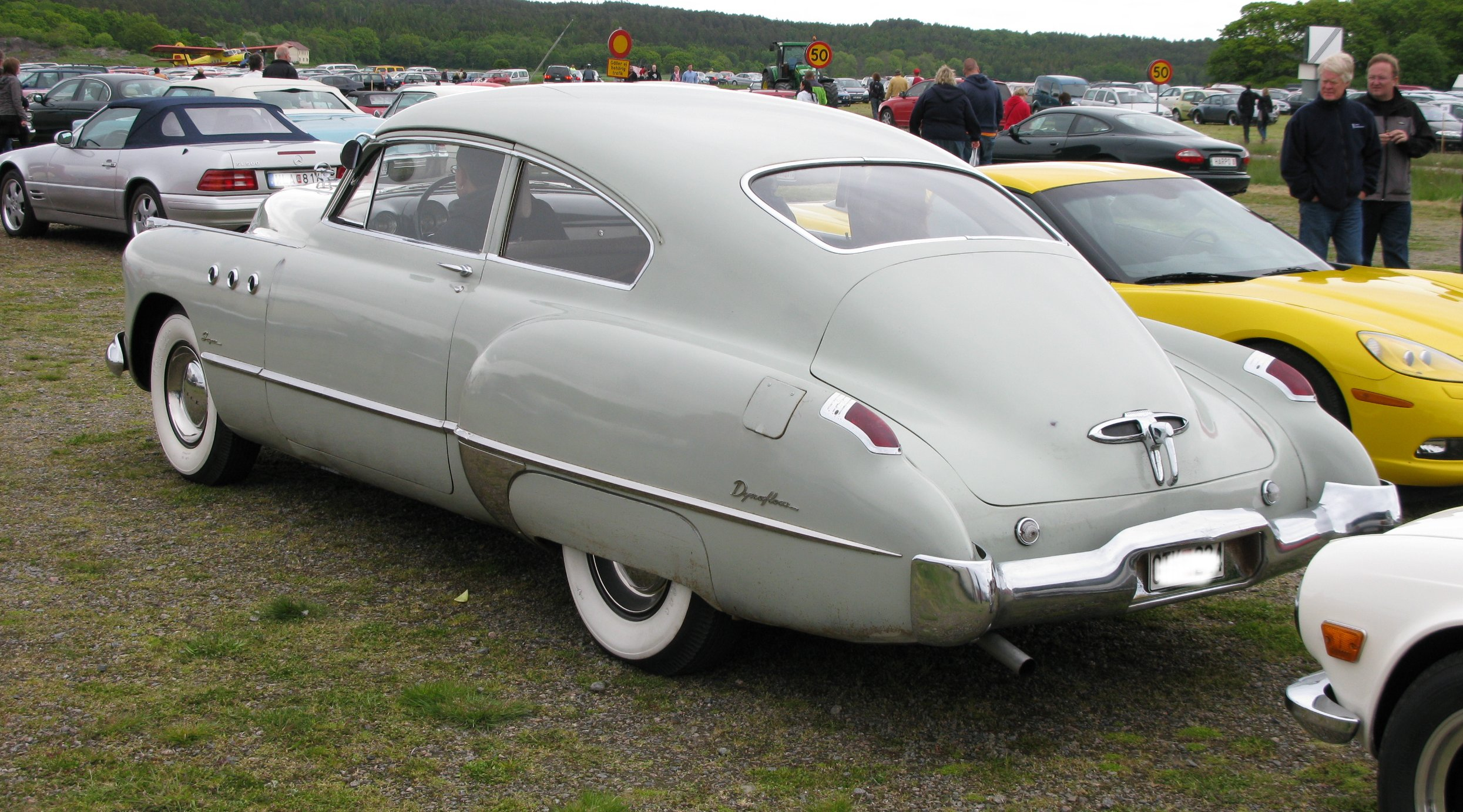 1949 Buick Sedanette.Event: Tjolöholm Classic Motor 2009